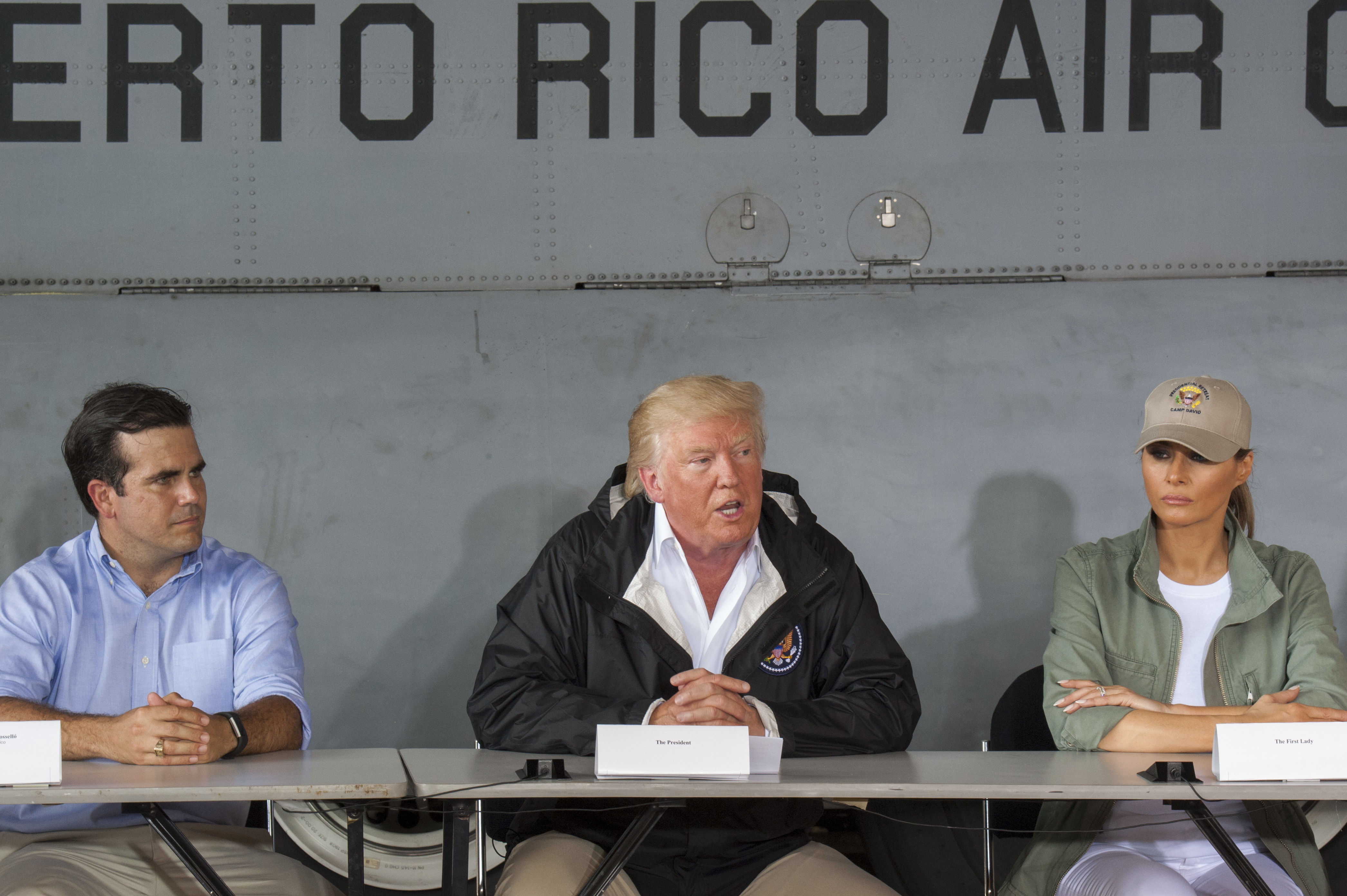 Puerto Rico Gov. Ricardo Roselló, U.S. President Donald Trump and First Lady Melania Trump discuss relief efforts during a cabinet meeting at Muñiz Air National Guard Base, Carolina, Puerto Rico, Oct. 3, 2017. The President visited Puerto Rico following Hurricane Maria and met with local leadership regarding storm response efforts. (U.S. Air National Guard photo by Staff Sgt Michelle Y. Alvarez-Rea)